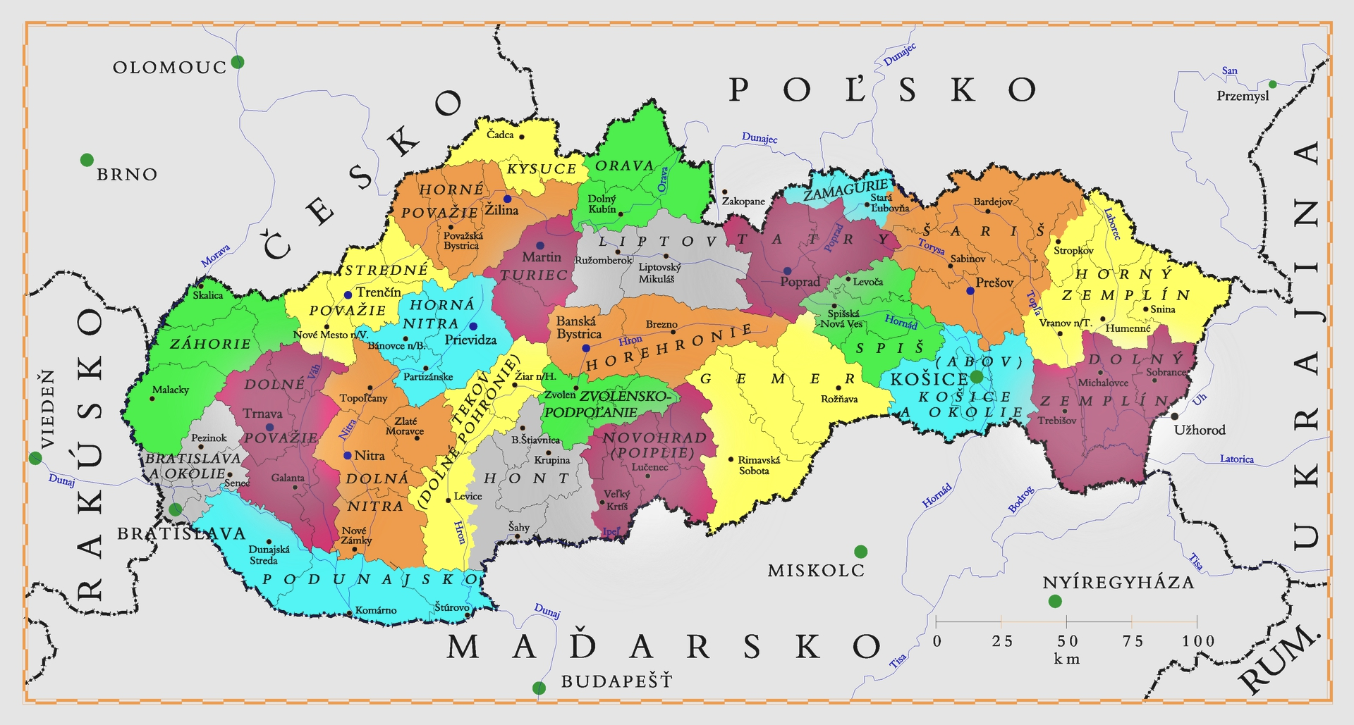 Tourism region in Slovakia